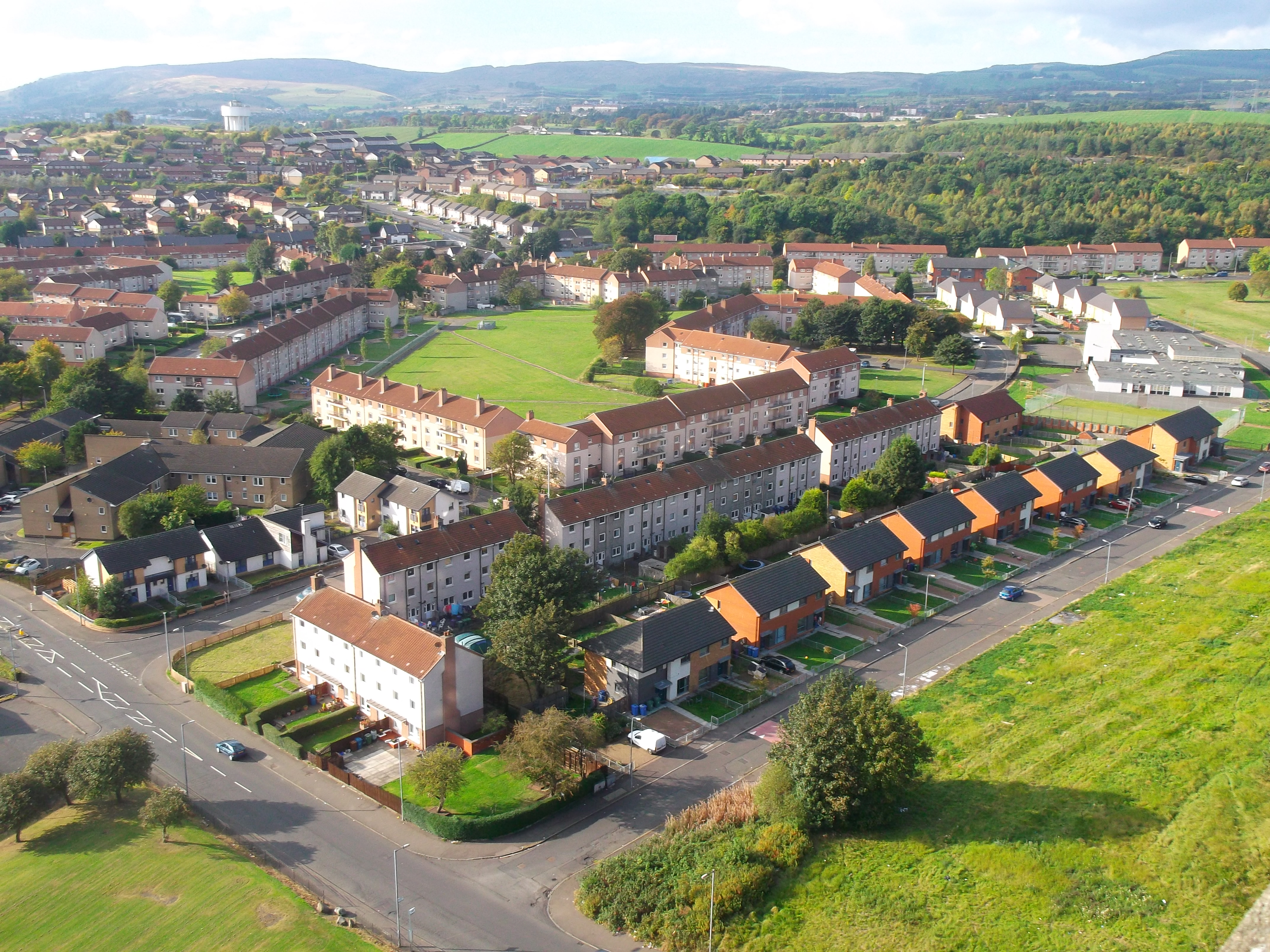 Drumchapel houses from 15 Linkwood Crescent, Drumchapel, Glasgow